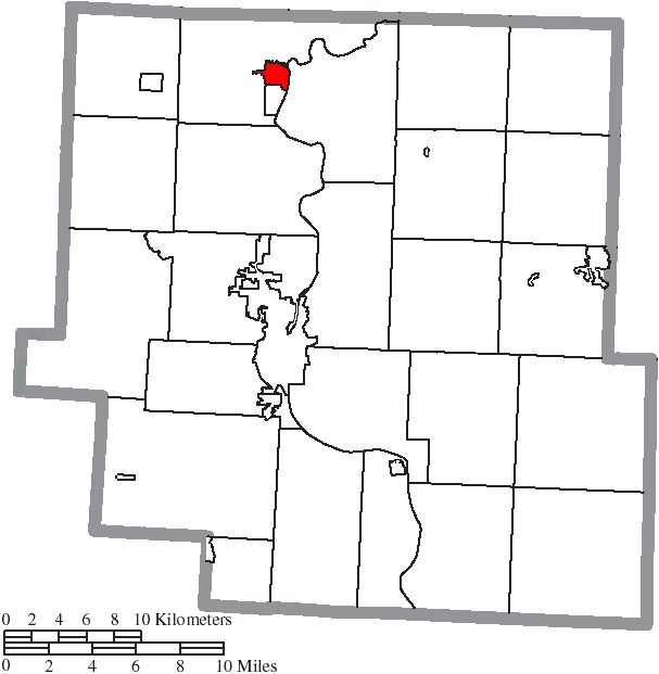 Map of the municipal and township boundaries of Muskingum County, Ohio, United States, as of the 2000 census, with the location of the village of Dresden highlighted. Township borders are shown only in unincorporated areas in order to differentiate incorporated and unincorporated areas more clearly.